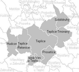 Cadastral map of Teplice